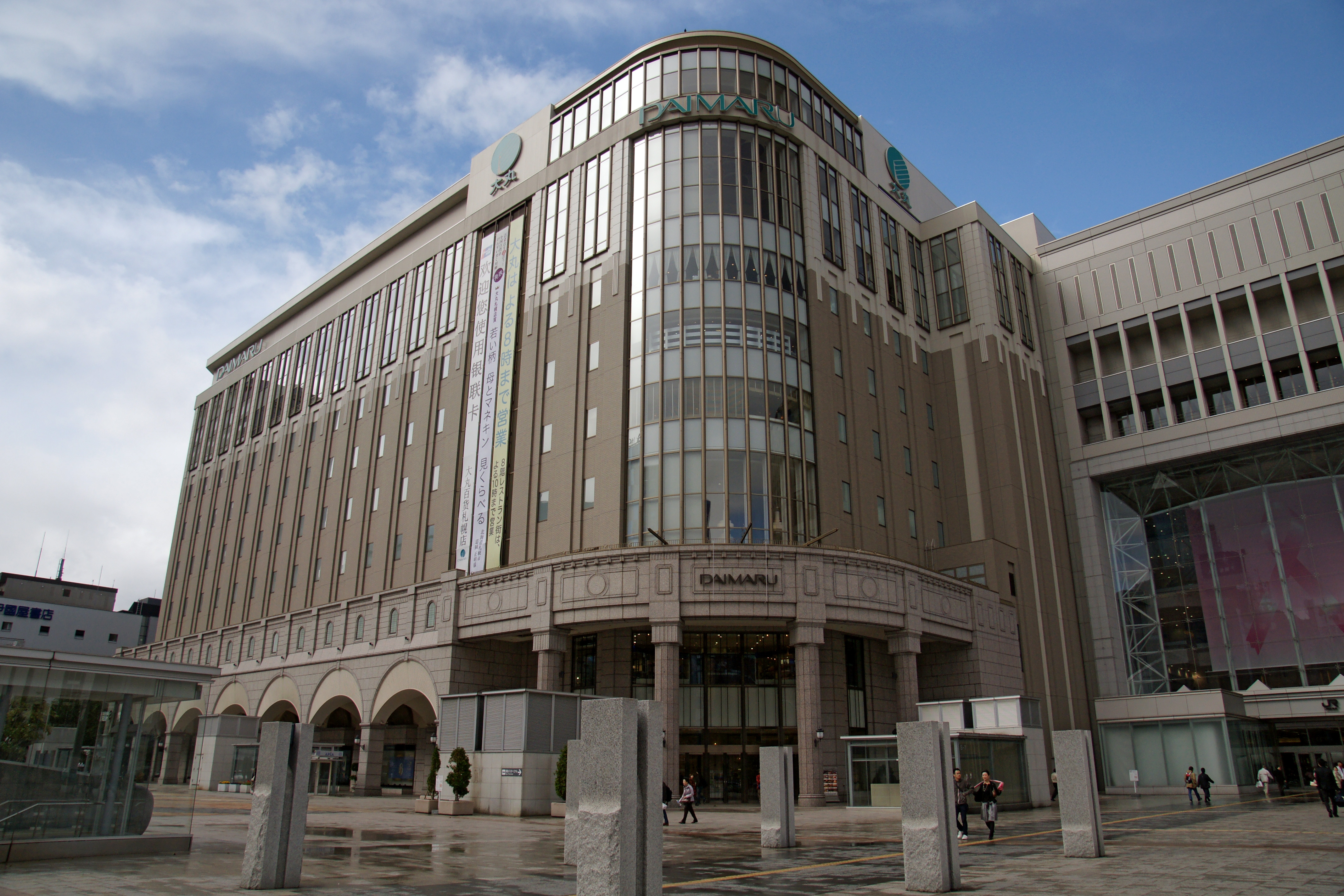 Daimaru department store in Sapporo, Hokkaido prefecture, Japan